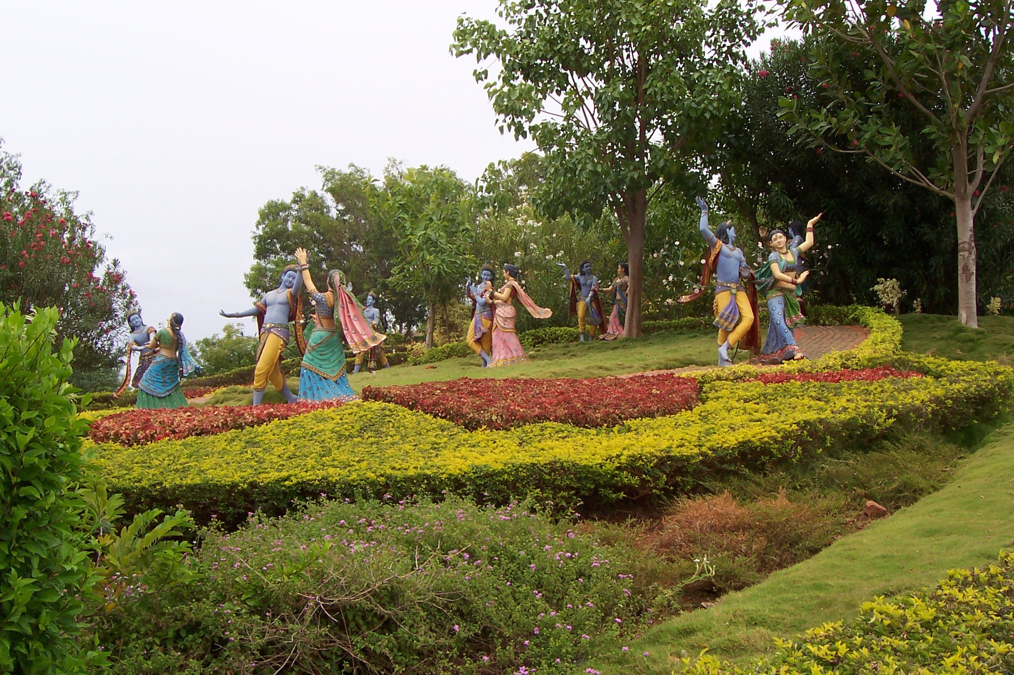 Another view of Krishna garden at Alamatti dam